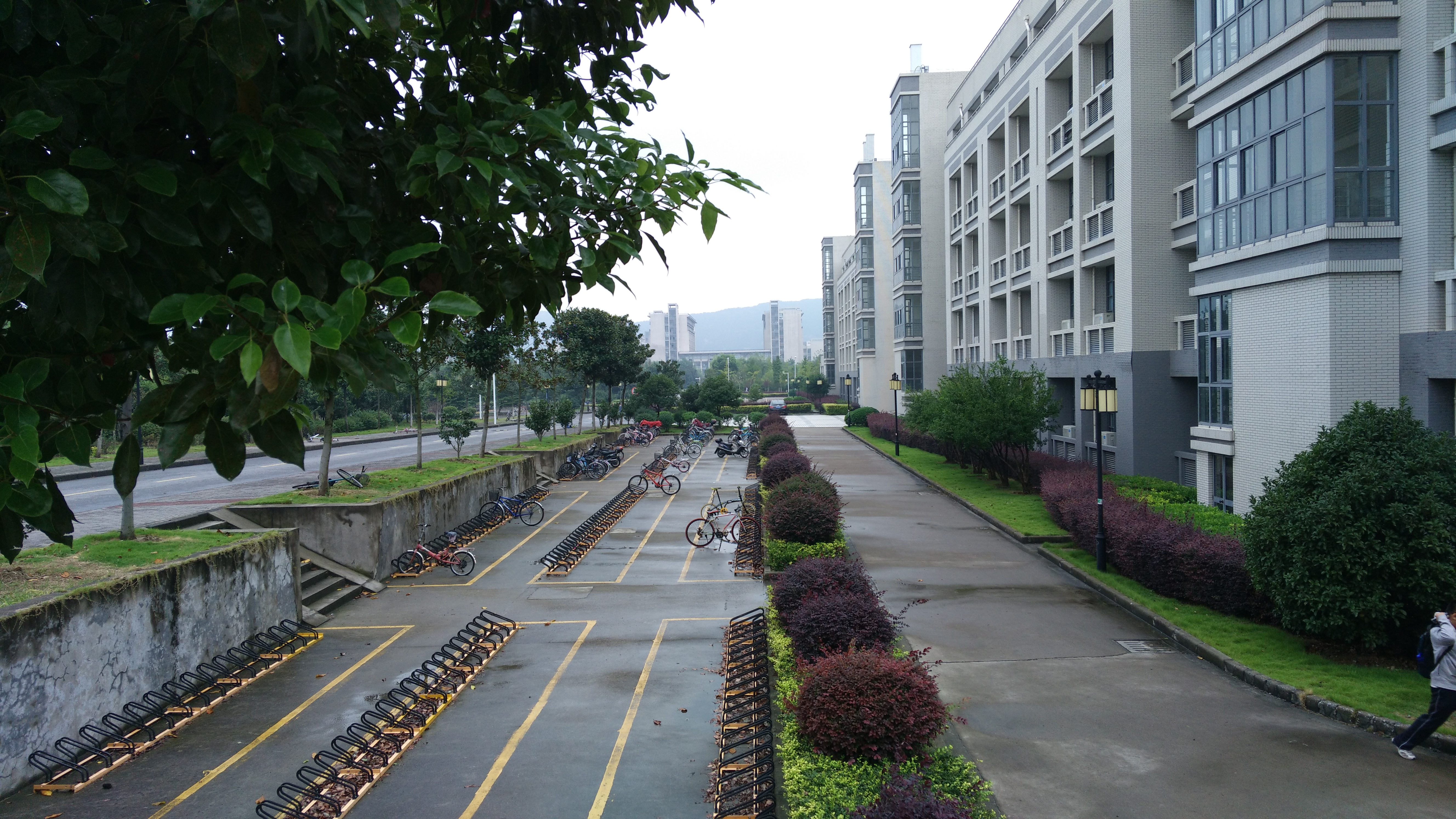 campus